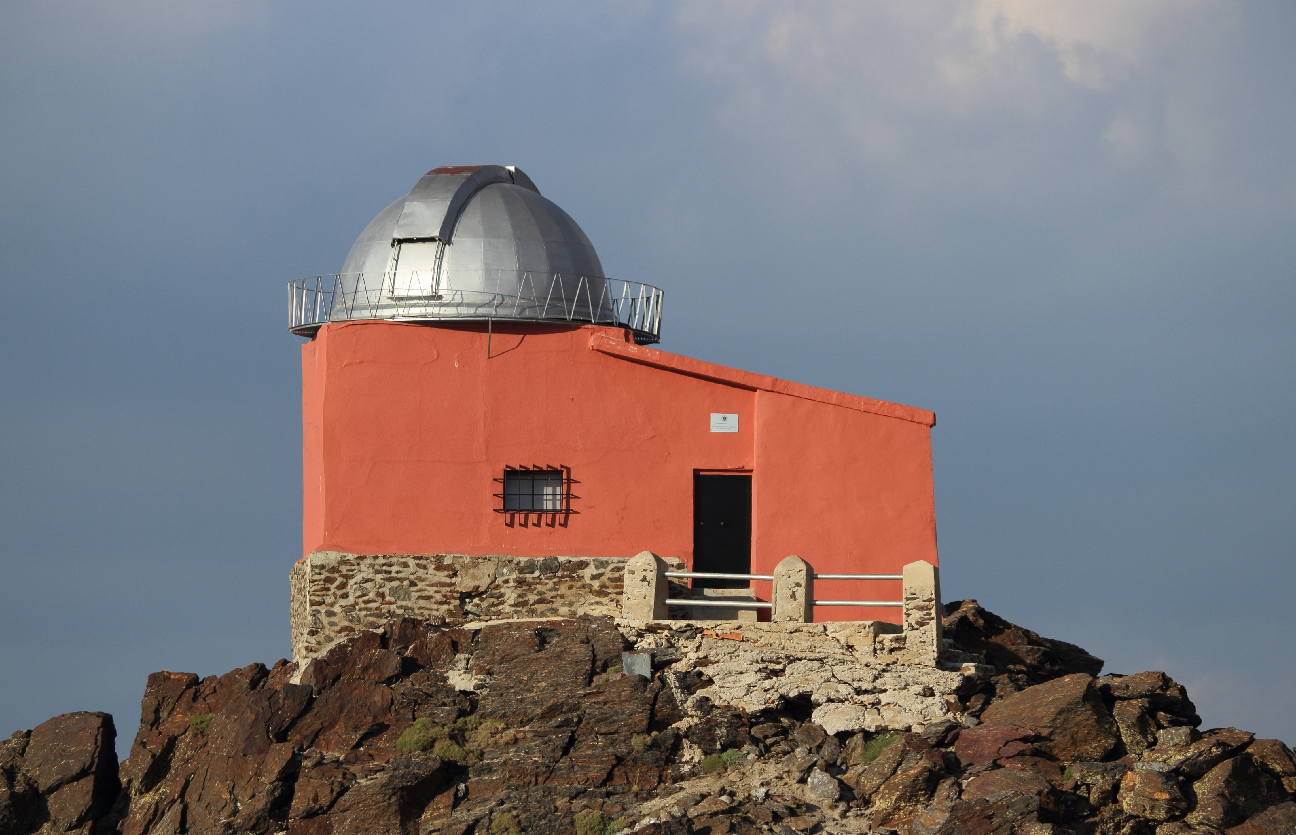 Mohón del Trigo Observatory as seen from the SW from near Monument of Our Lady of the Snows (Sierra Nevada), Spain. For a wider view see also this version created by Jebulon at almost the same time.